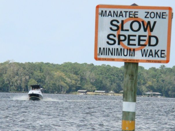 Doctor's Lake in Orange Park